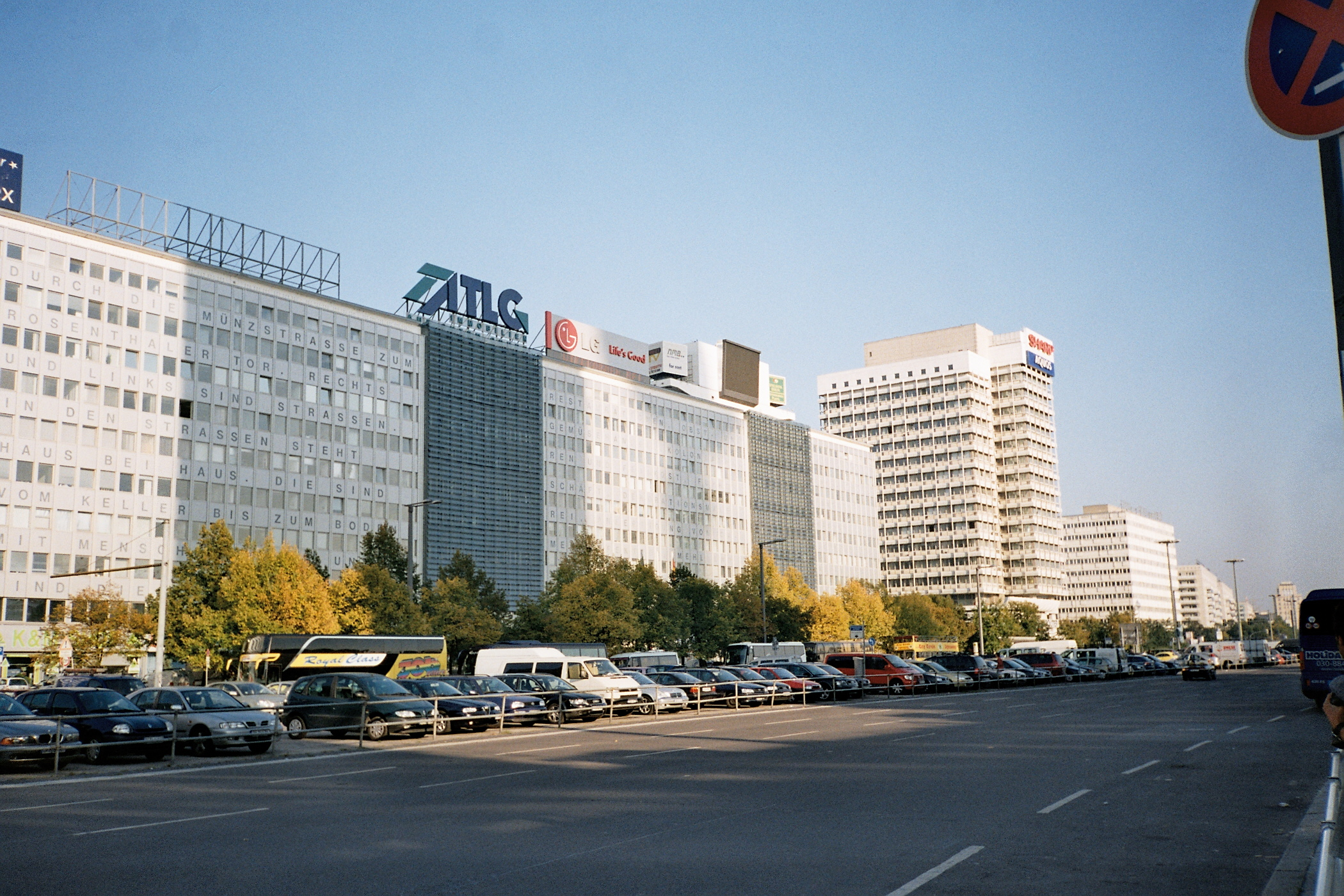 Description: Headquarter of Bundesministerium für Umwelt on Alexanderplatz in Berlin. Source: self-made. I release it into the public domain.